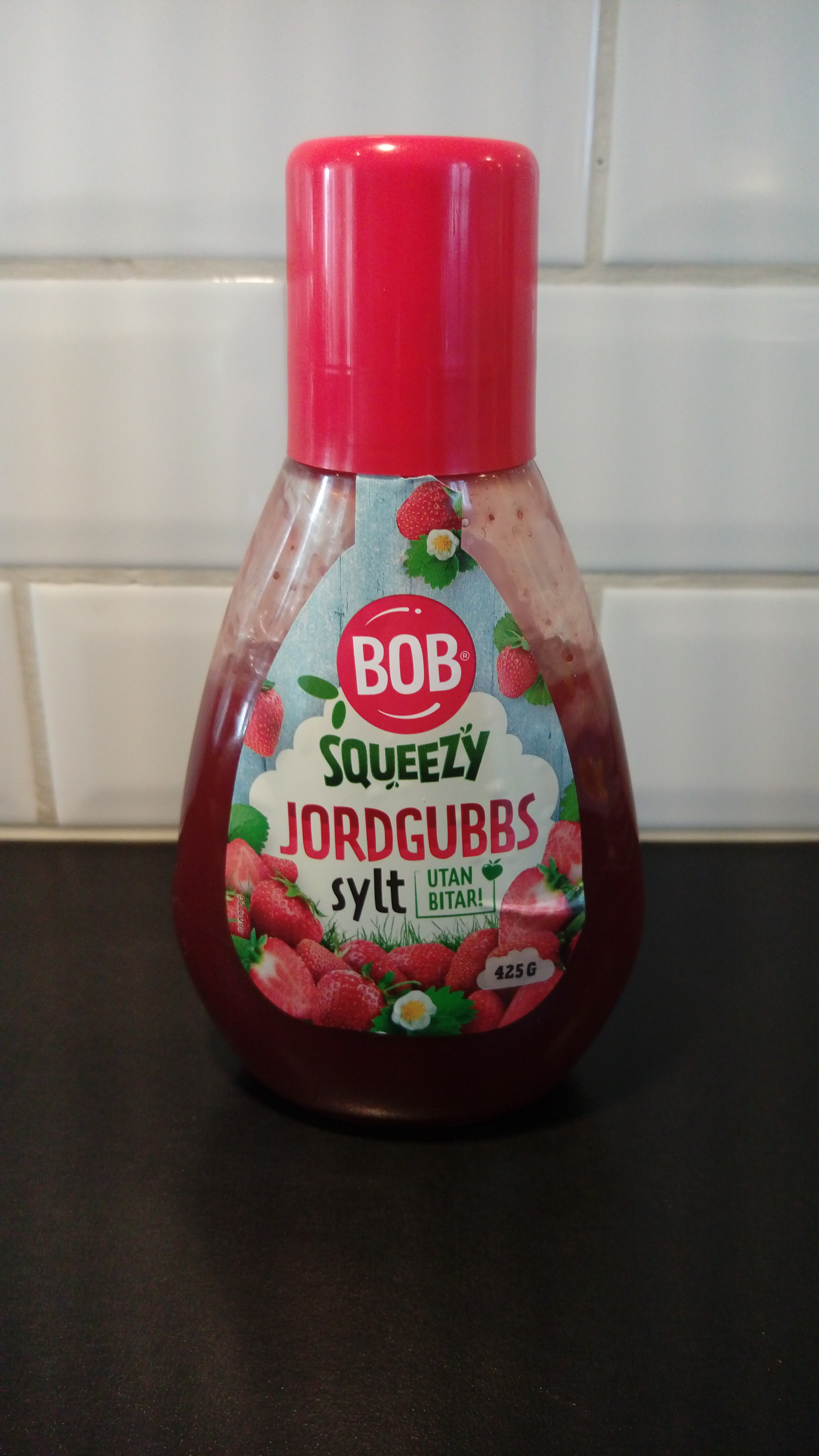 Strawberry jam by BOB